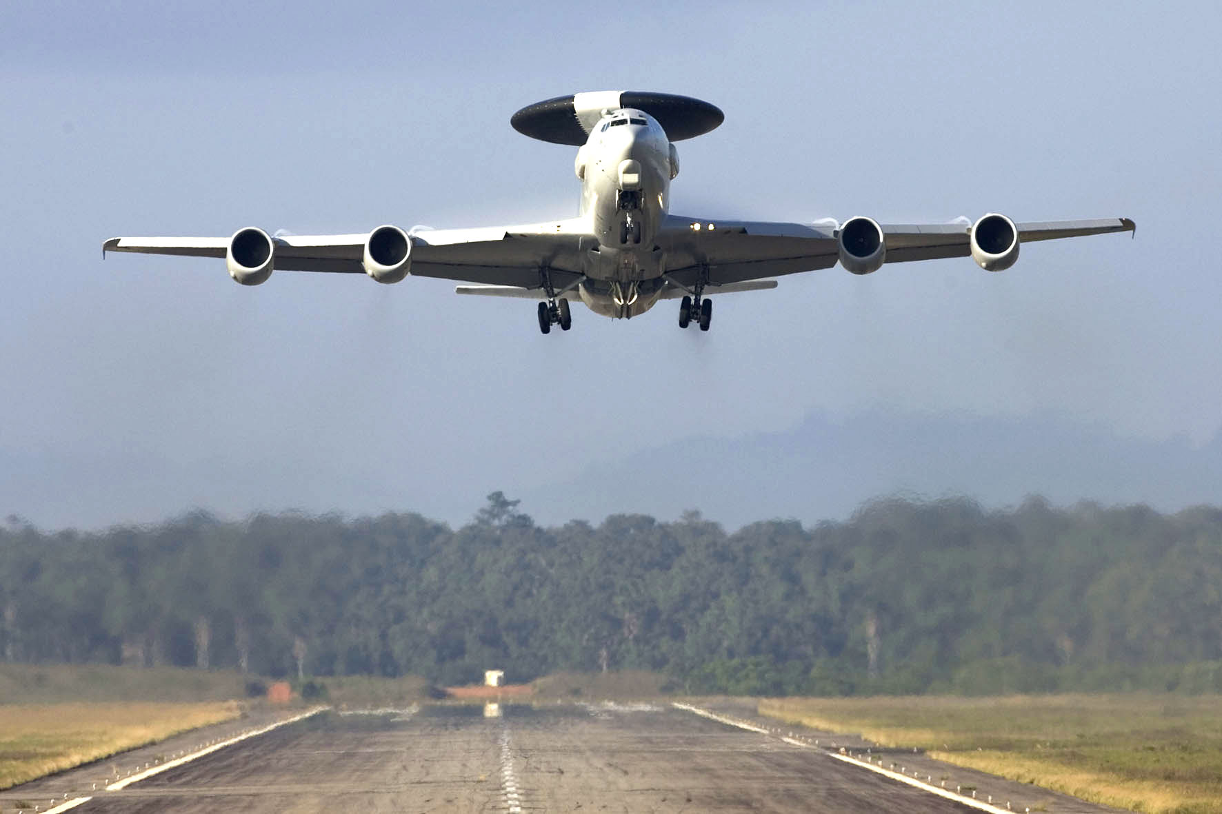 A French E-3F Airborne Warning and Control System aircraft takes off from Avord, France, for a final flight leading up to the flight certification and delivery of the last aircraft to undergo the Radar System Improvement Program. The upgrade improves the E-3F's surveillance capability and electronic counter-countermeasures capability. The upgrade was managed by the Electronic Systems Center at Hanscom Air Force Base, Mass. (Courtesy photo)